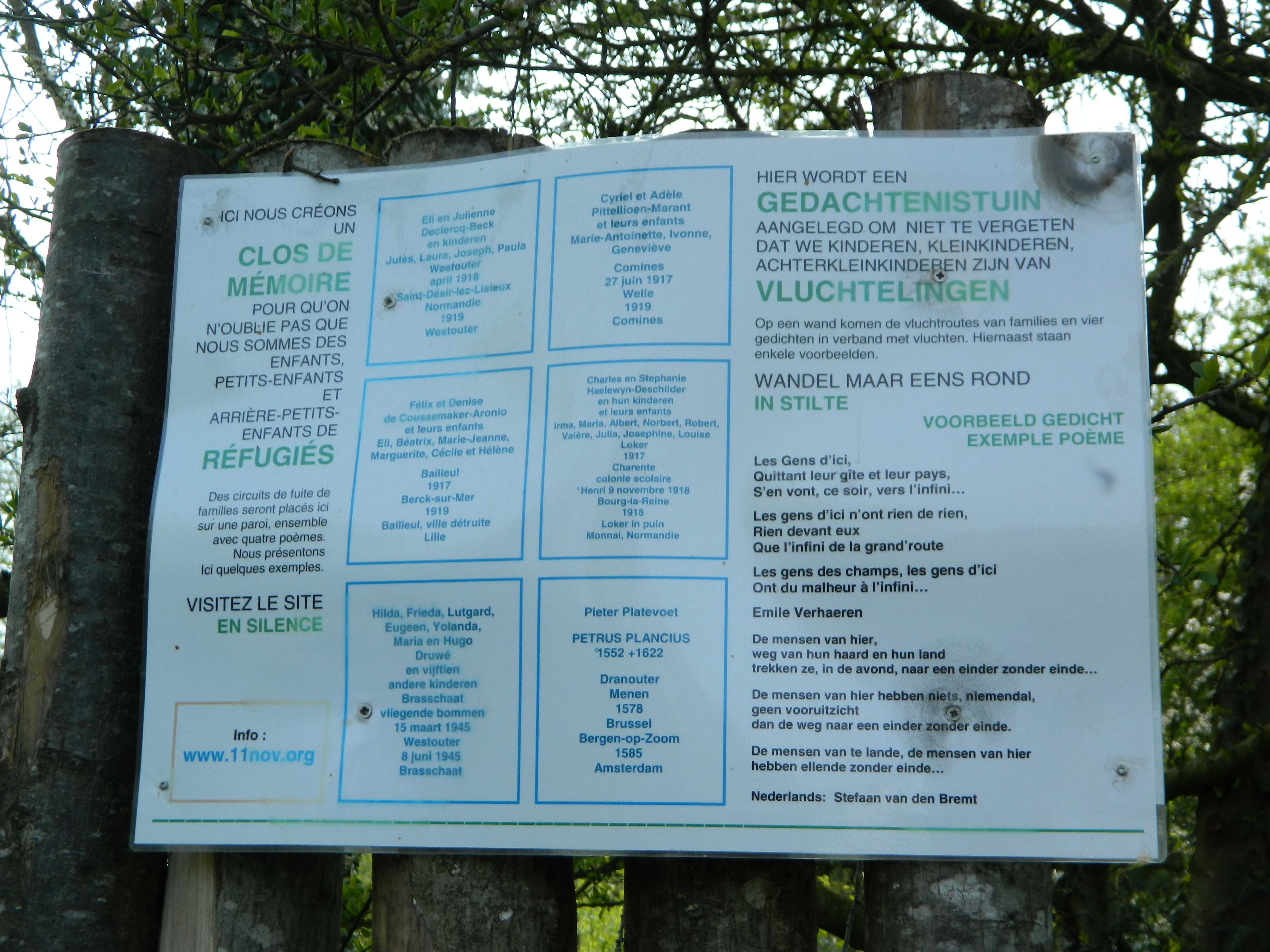 Ingang van de gedachtenistuin in Westouter